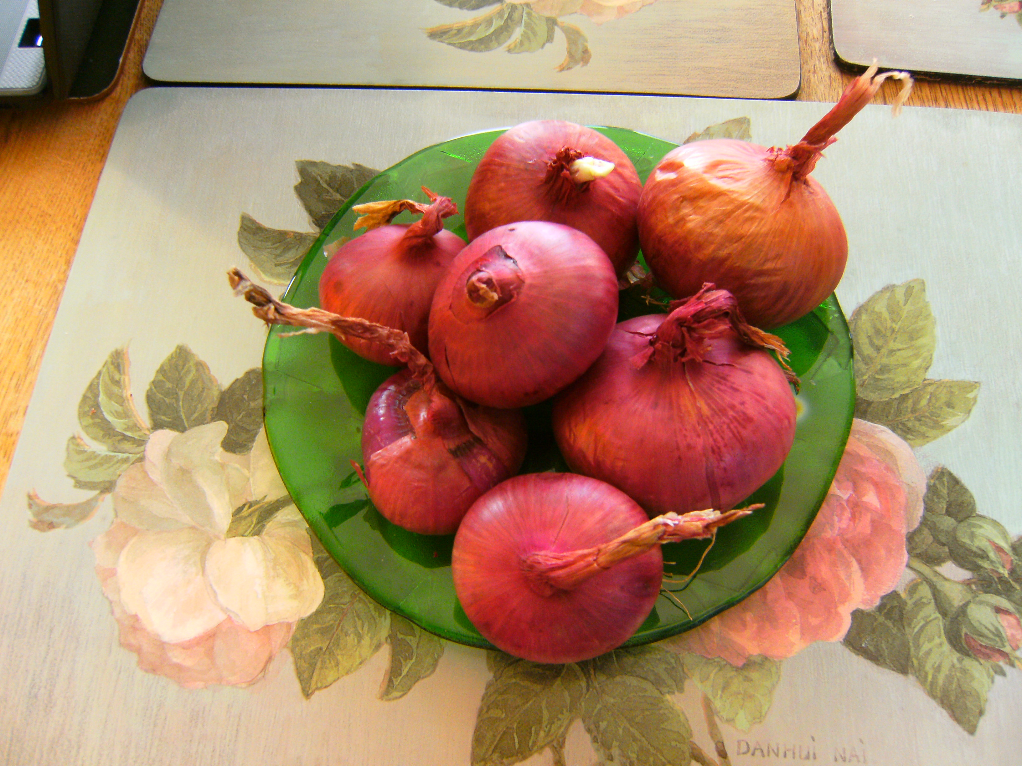 Special flat onions from Höri, Iznang, Untersee (Lake Constance), Germany called Höri-Bülle.